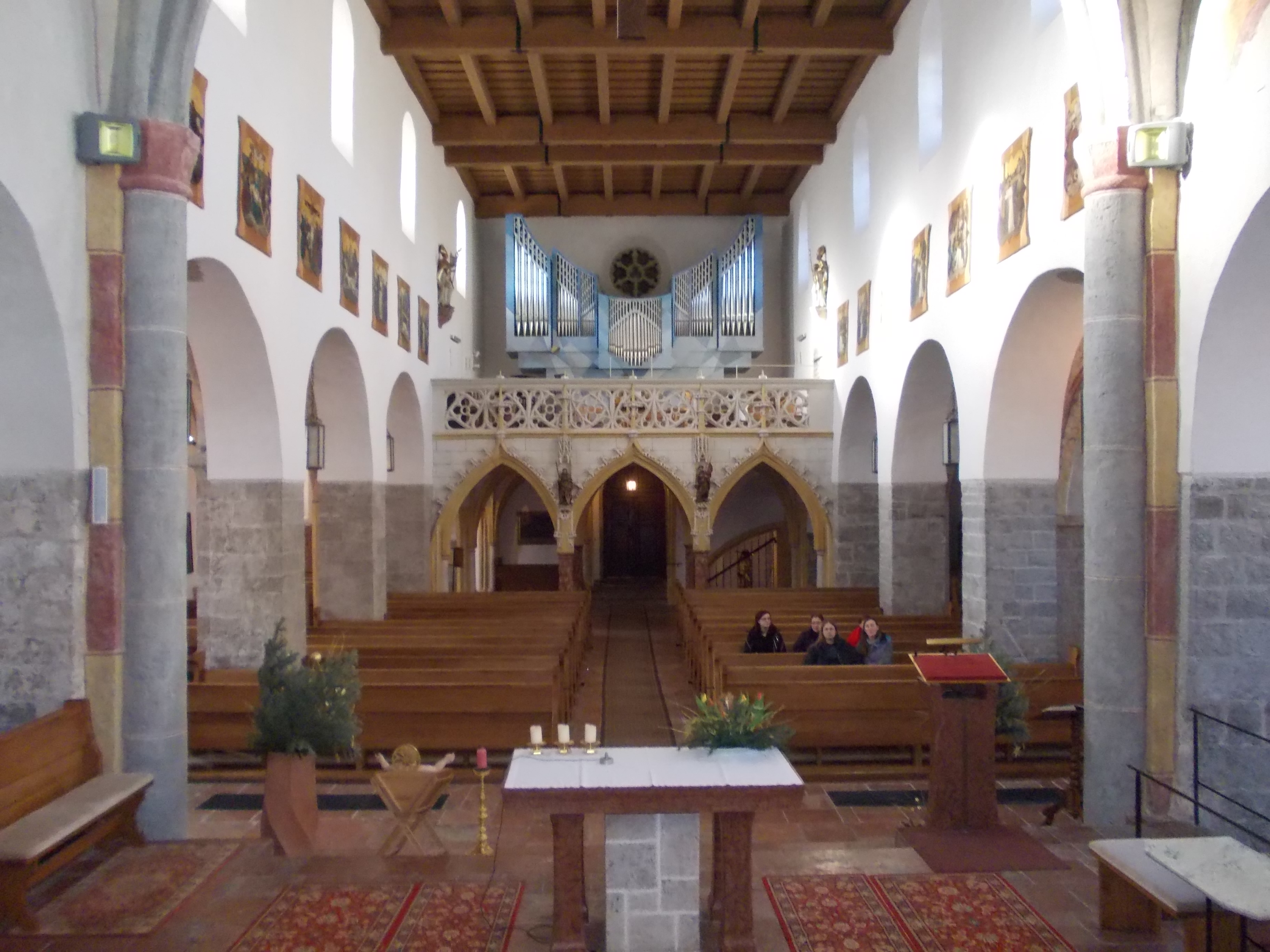 Saint Hippolytus Church (Zell am See)